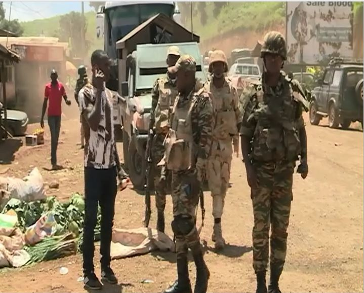 Cameroonian soldiers in Bamenda, Northwest Region